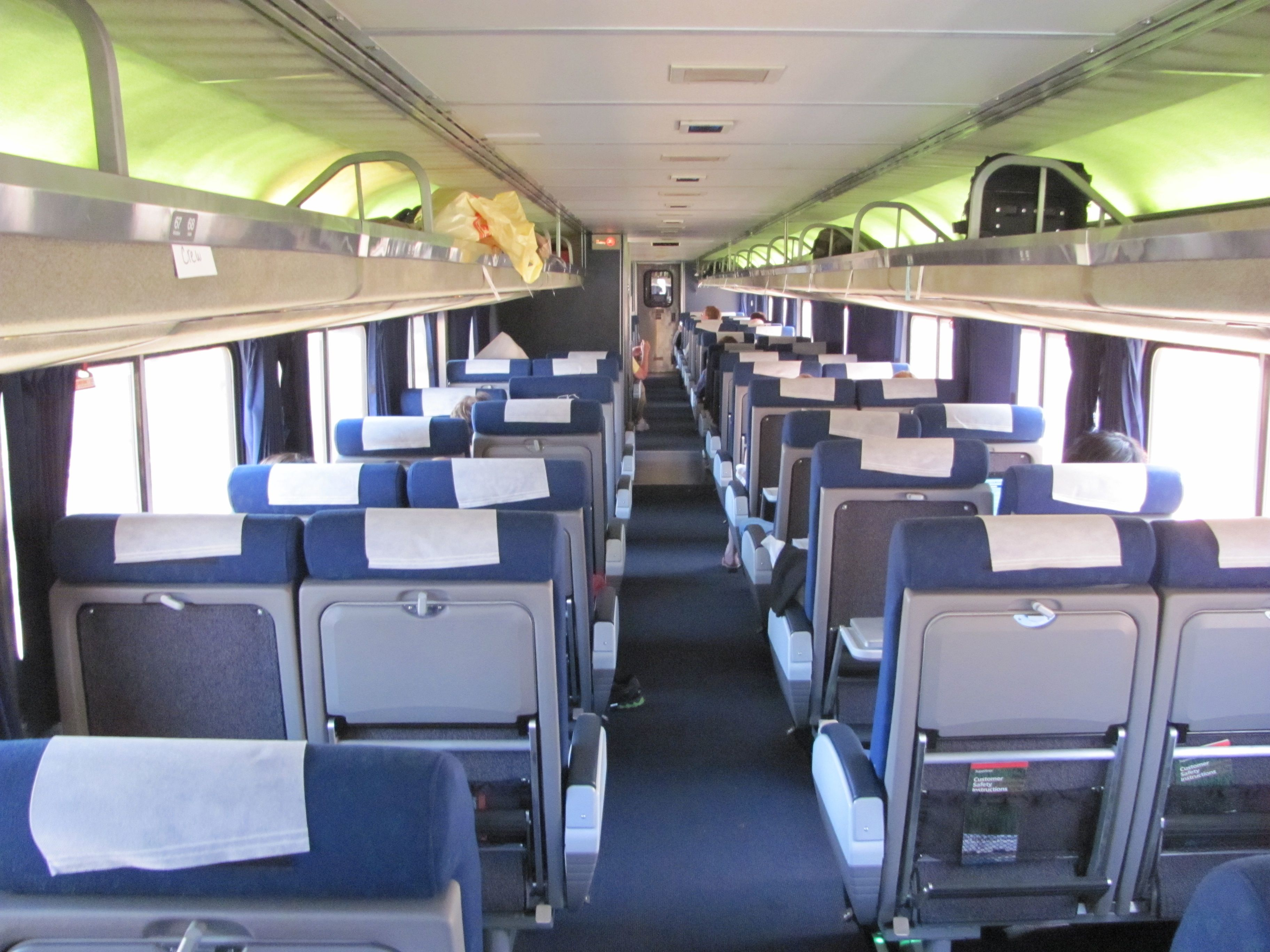 Amtrak Coach